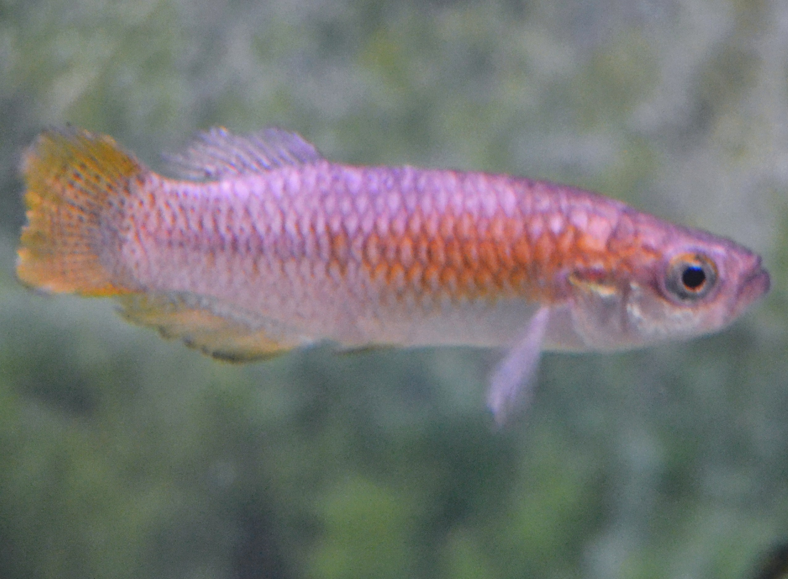 Valencia toothcarp (Valencia hispanica), a species of freshwater fish in the Valenciidae family endemic to the south of Catalonia and the Valencian Community, Spain.